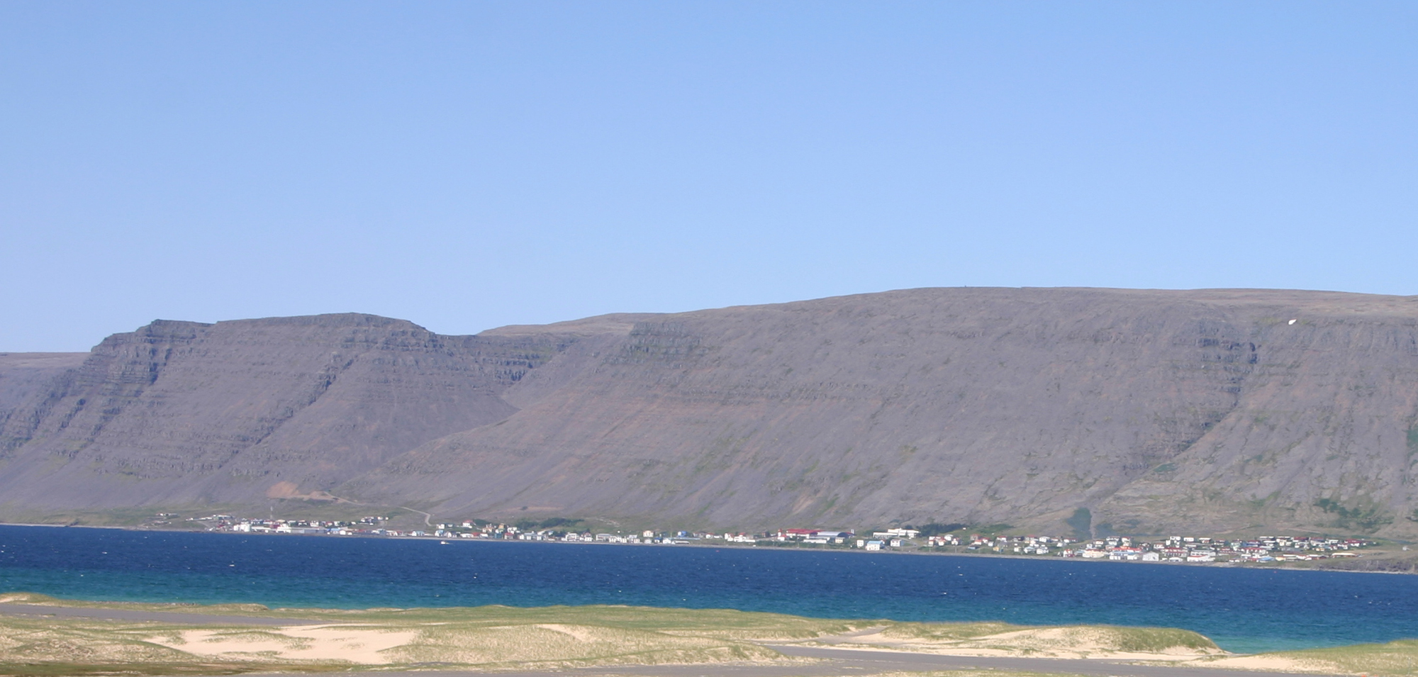 Patreksfjörður, Westfjords, Iceland. June 2008.